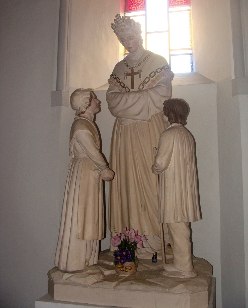 Statue of Our Lady of La Salette and the two children, in the church of Corps, Isère, France (near to La Salette village)